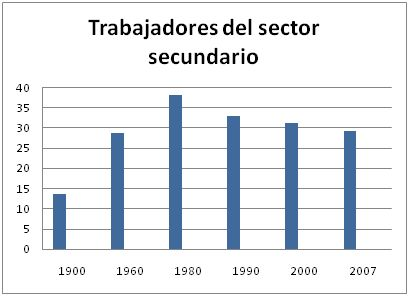 wykres